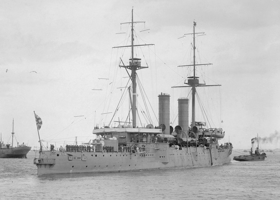 Japanese cruiser „Asama“ being towed to sea by steam tug.